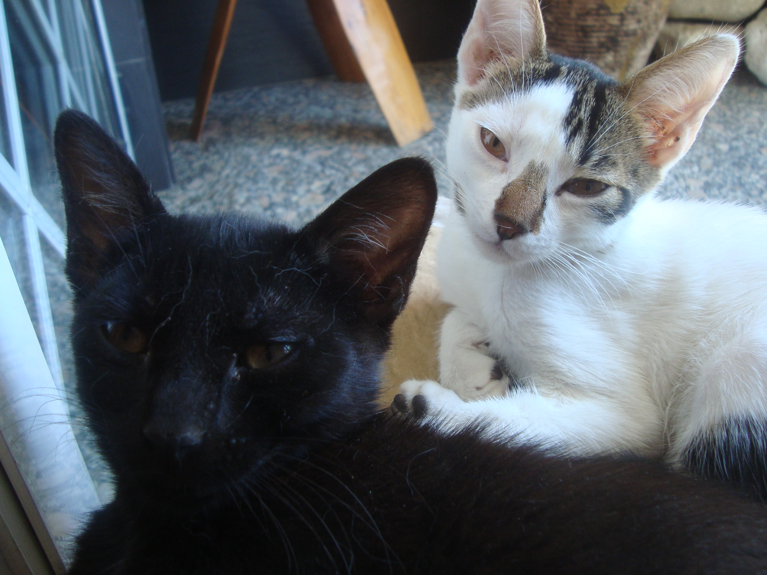 Domestic cats